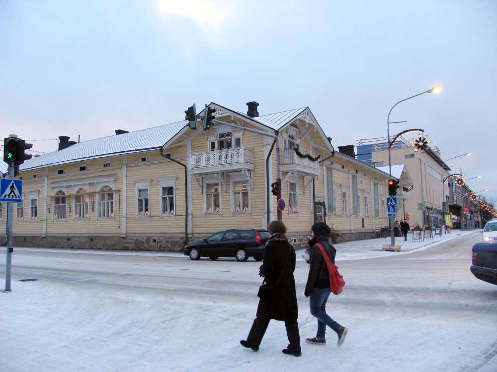 Joensuu artisan centre